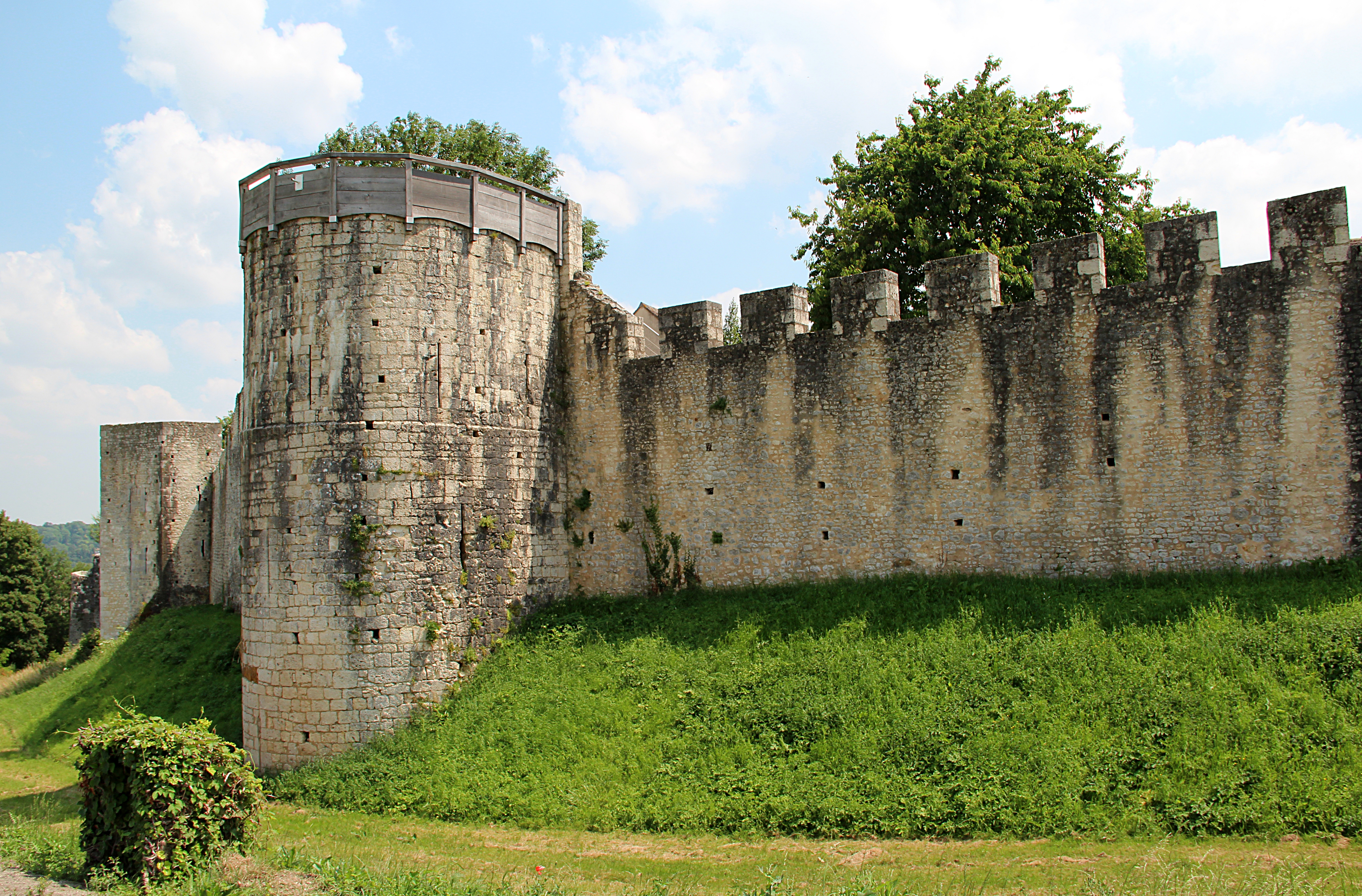 Provins (Île-de-France), “Grandes Planches” city walls and towers.